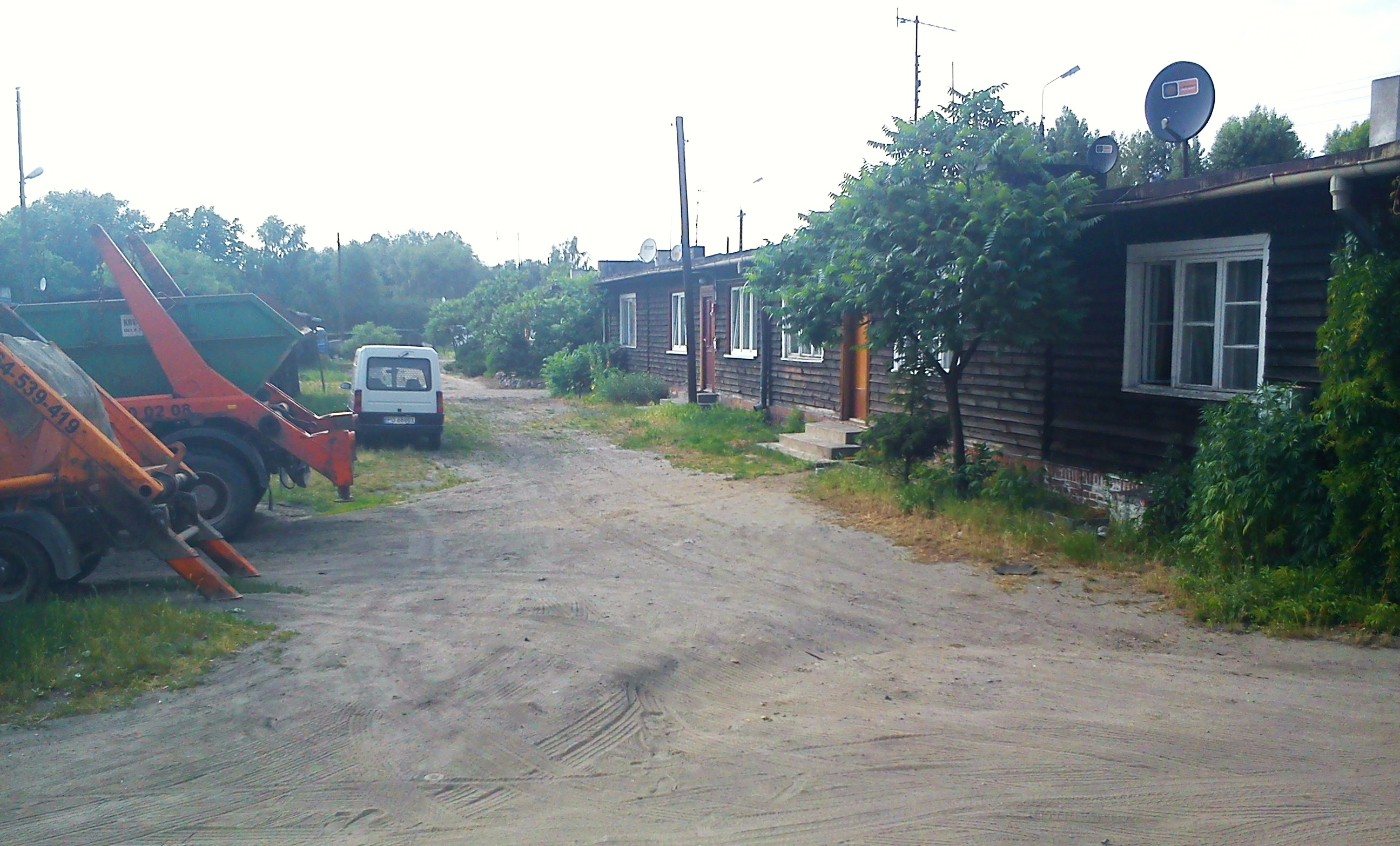 Barracks for unemployed in Poznan, Jarzebowa Street. 1936.